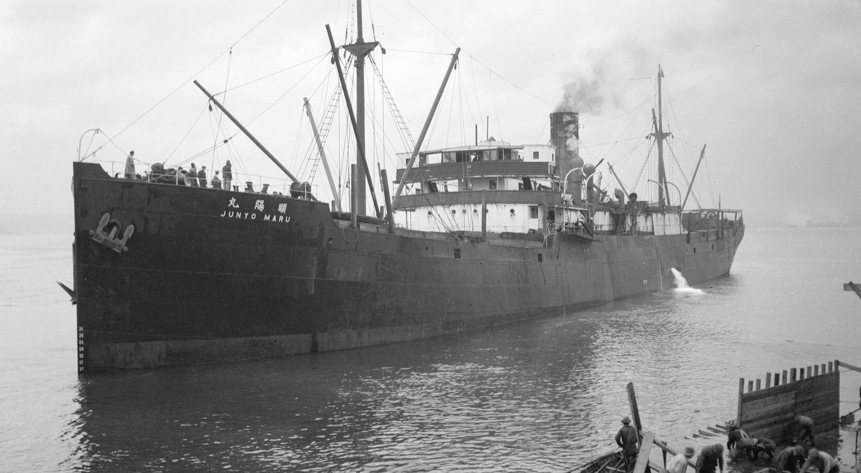 Japanese cargo ship Jun'yō Maru.